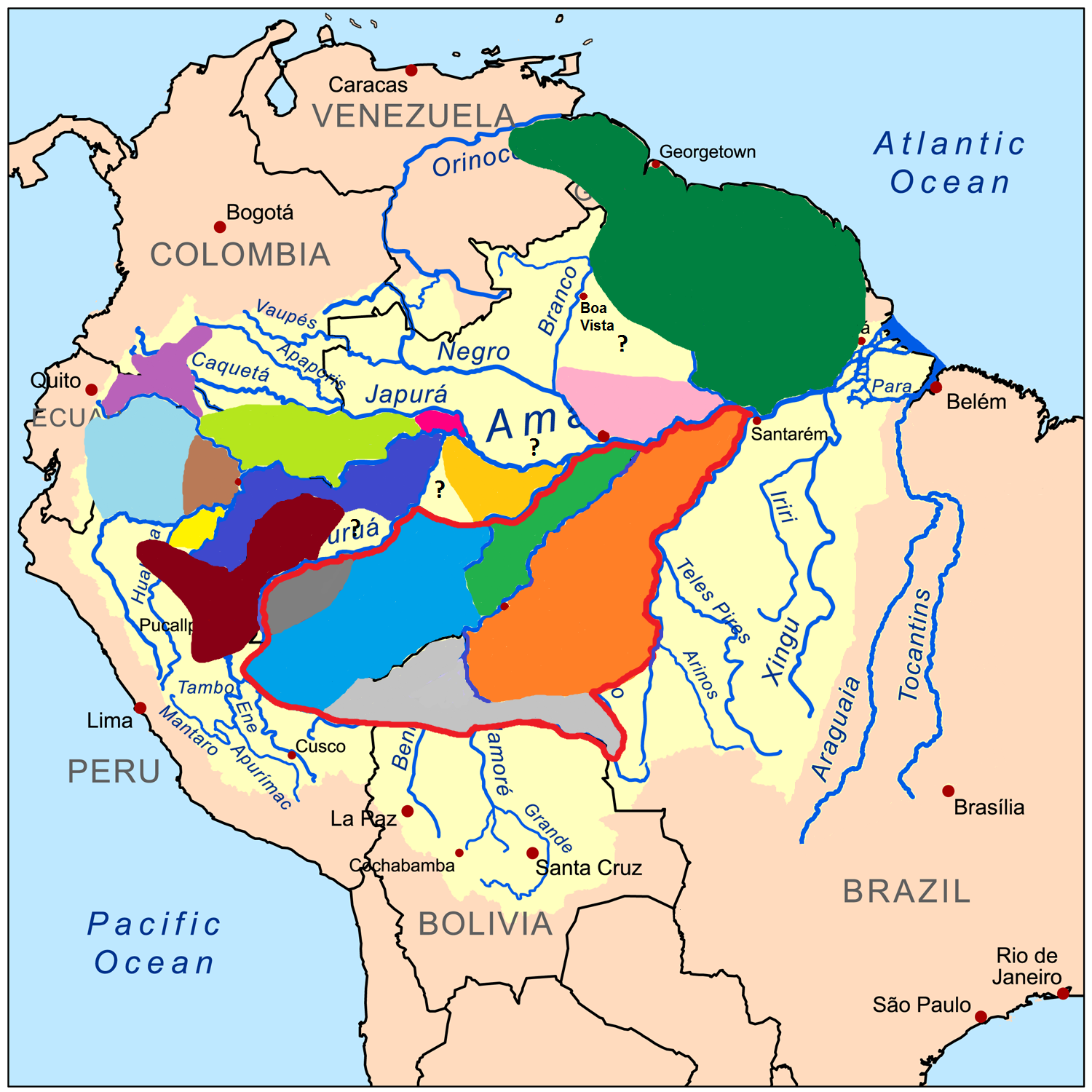 Distribution of Saki monkeys, Source:Laura K. Marsh. 2014. A Taxonomic Revision of the Saki Monkeys, Pithecia Desmarest, 1804. Neotropical Primates. 21(1); 1-163.